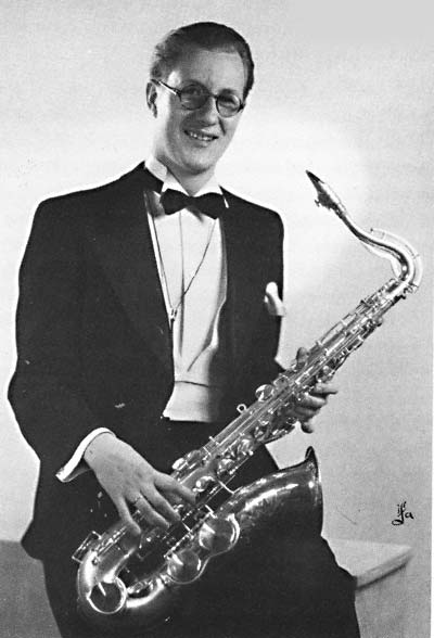 Görling, Zilas. Swedish jazz musician